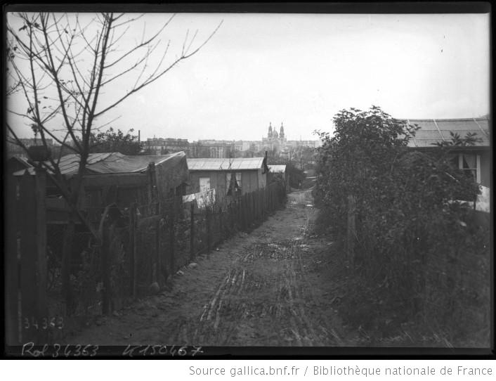 Zone Kremlin Bicêtre (shanty town), pess photograph ; 13 x 18 cm